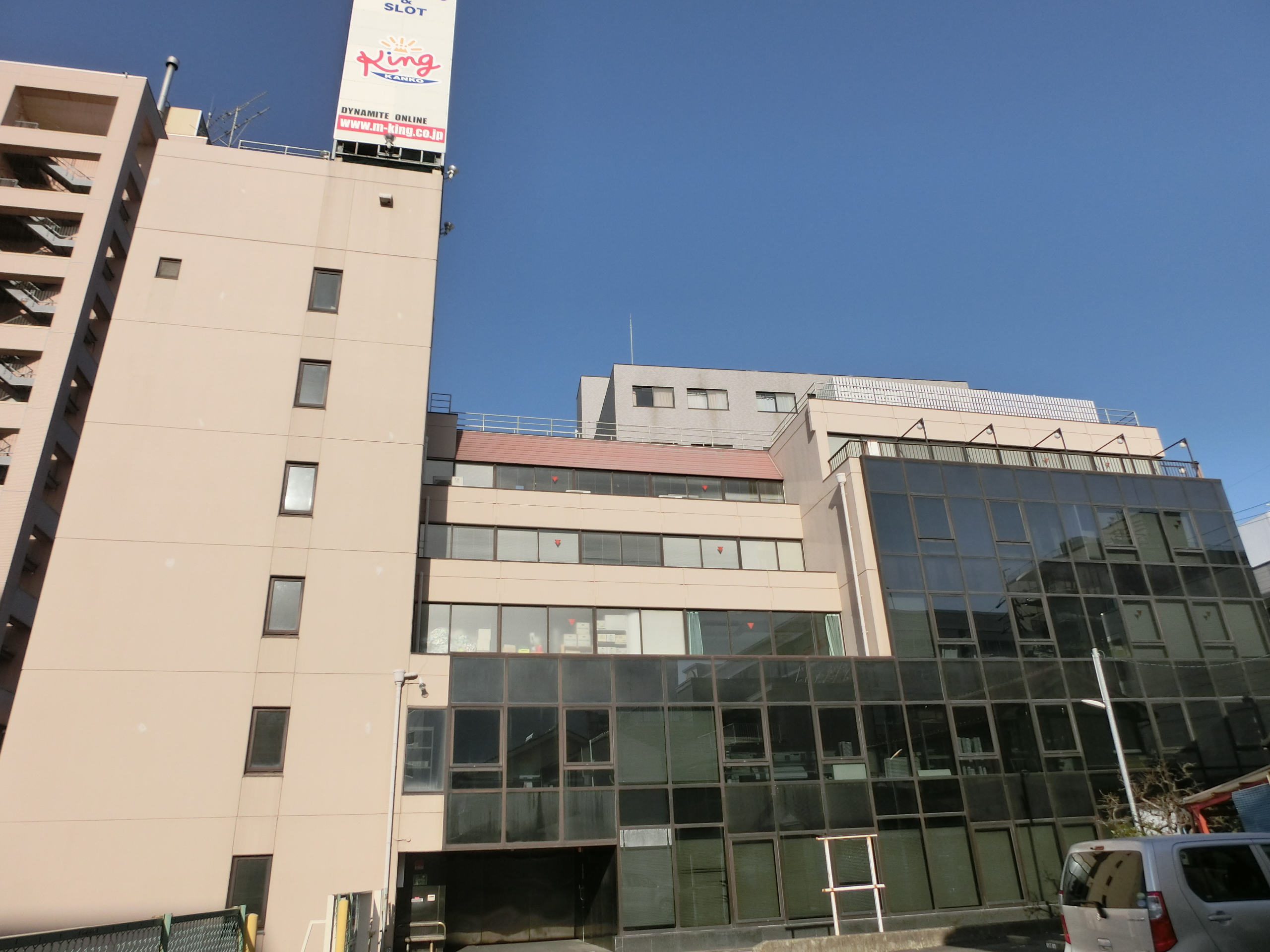 King Kanko Head Office